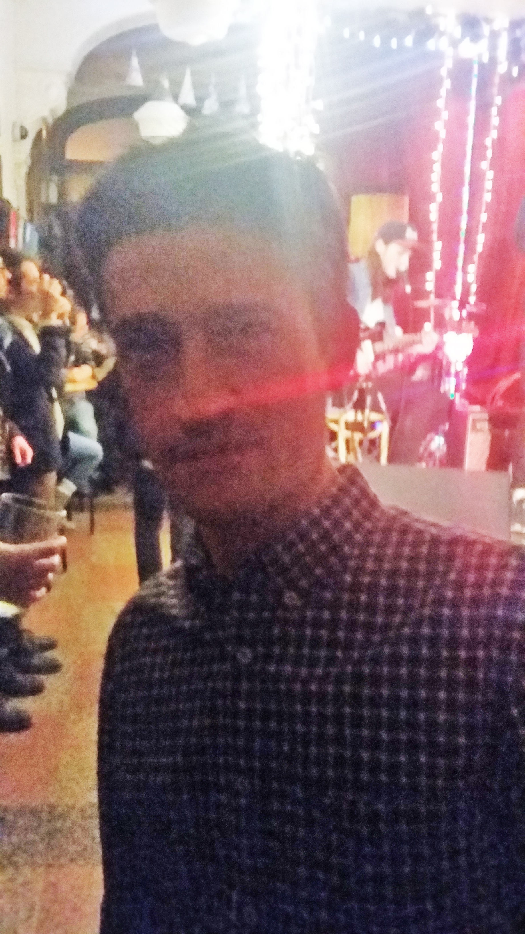 Jérôme Minière photographed in Montreal, Quebec, Canada inside Quai Des Brumes.